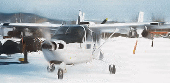 O2-A, 25th Tactical Air Support Squadron, Eielson Air Force Base, Alaska.